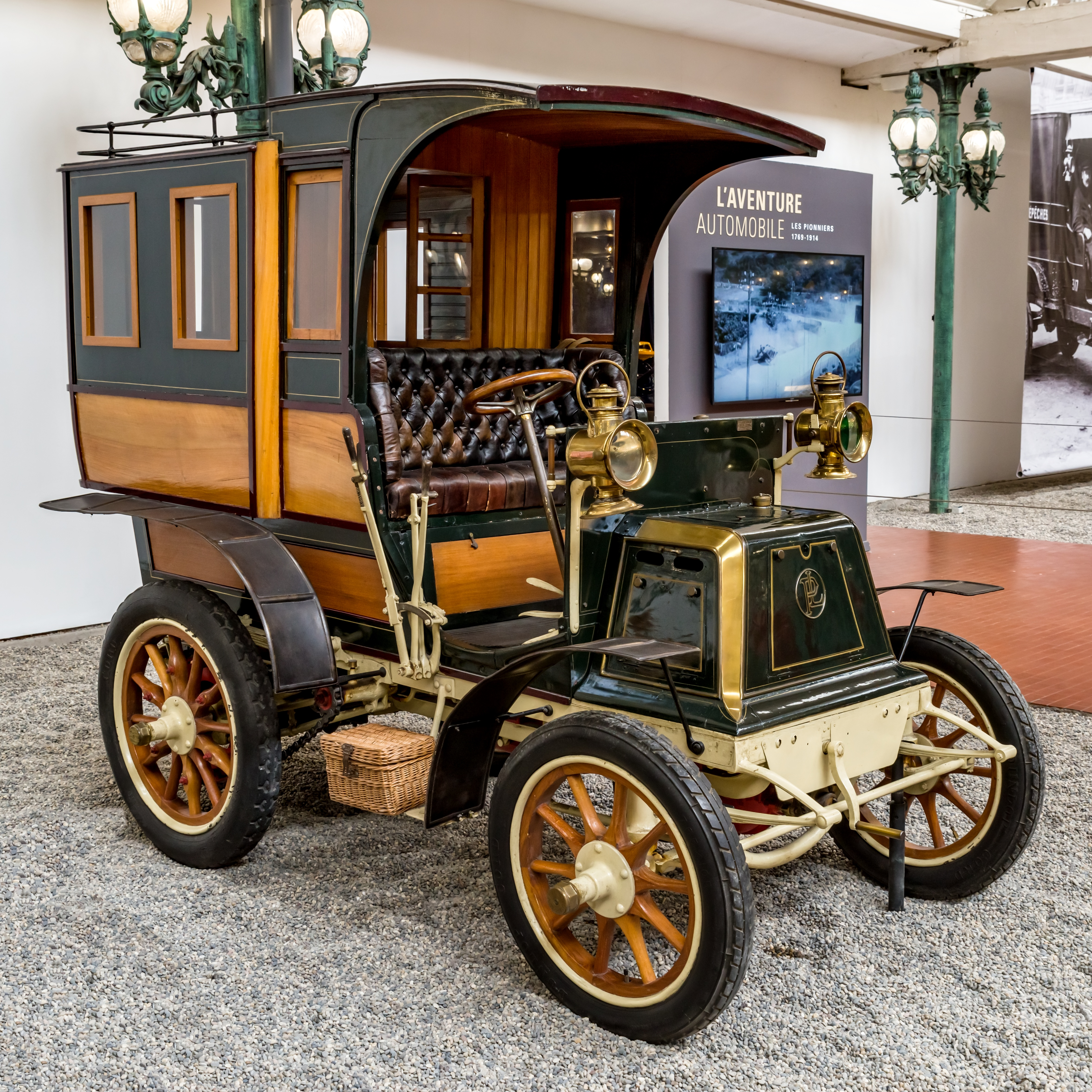 pictures from the Cité de l’Automobile – Musée National – Collection Schlump in Mulhouse, France ptictures from the 10. may 2018 Panhard & Levassor automobiles